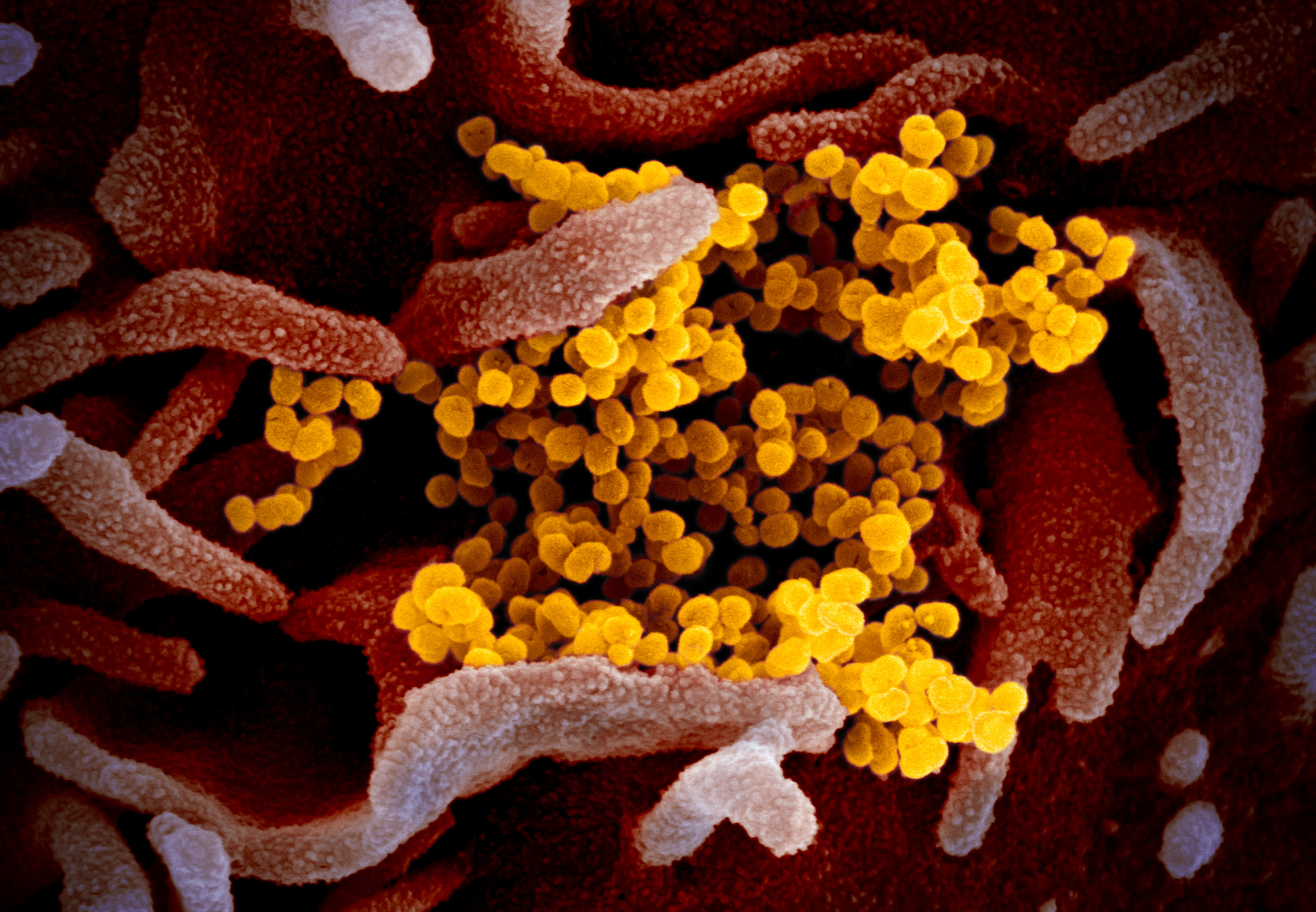 Novel Coronavirus SARS-CoV-2 This scanning electron microscope image shows SARS-CoV-2 (yellow)—also known as 2019-nCoV, the virus that causes COVID-19—isolated from a patient in the U.S., emerging from the surface of cells (pink) cultured in the lab. Credit: NIAID-RML